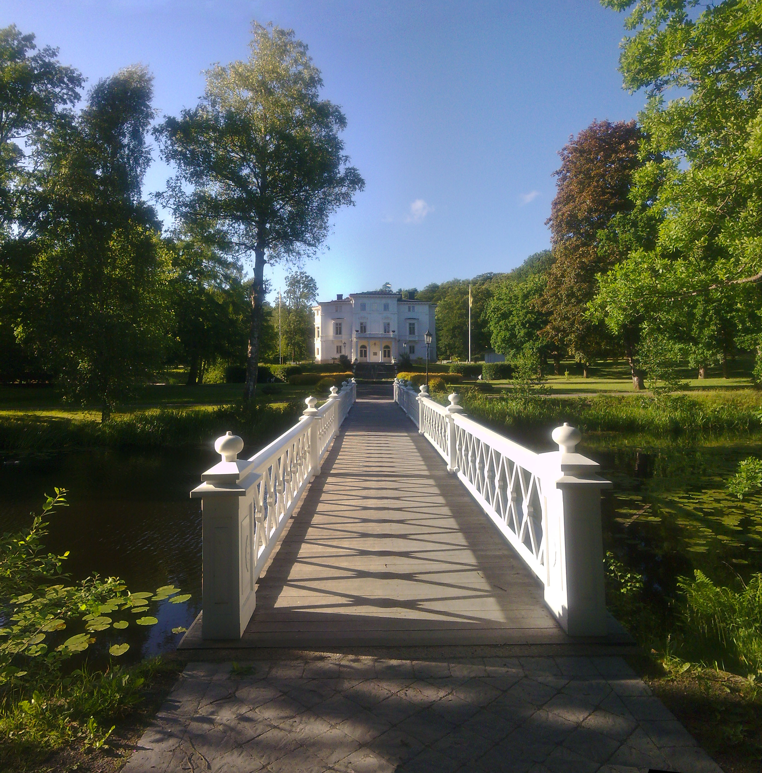 Villa Nolhaga, built 1879-80 in Italian renaissance style by Claes Adelsköld.